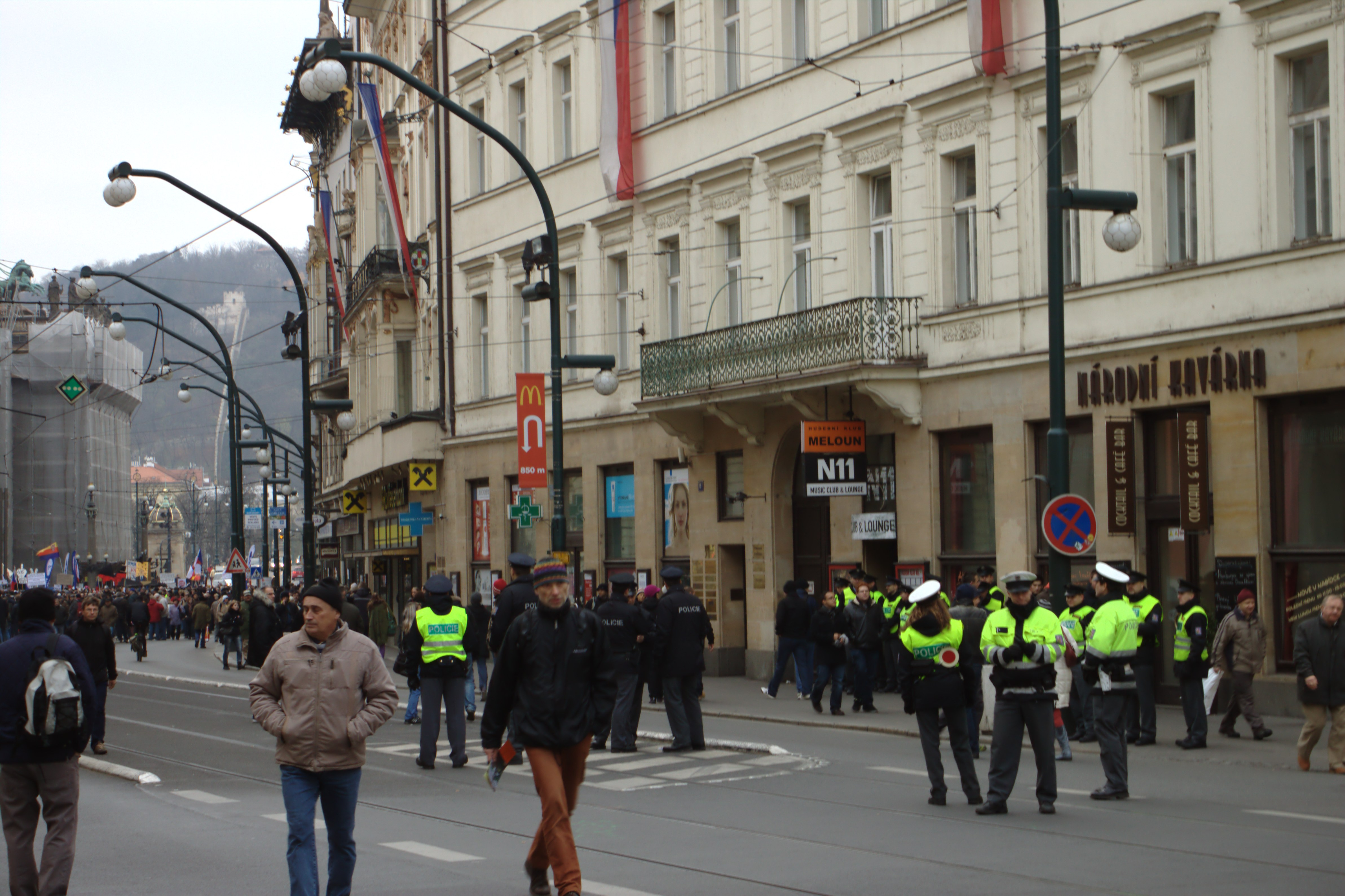 Labor unions protesting againts Czech govertnment reforms together with various left-wing organisations. The event took place in Prague, Národní třída on 17th November 2012 Personality rights warningAlthough this work is freely licensed or in the public domain, the person(s) shown may have rights that legally restrict certain re-uses unless those depicted consent to such uses. In these cases, a model release or other evidence of consent could protect you from infringement claims.